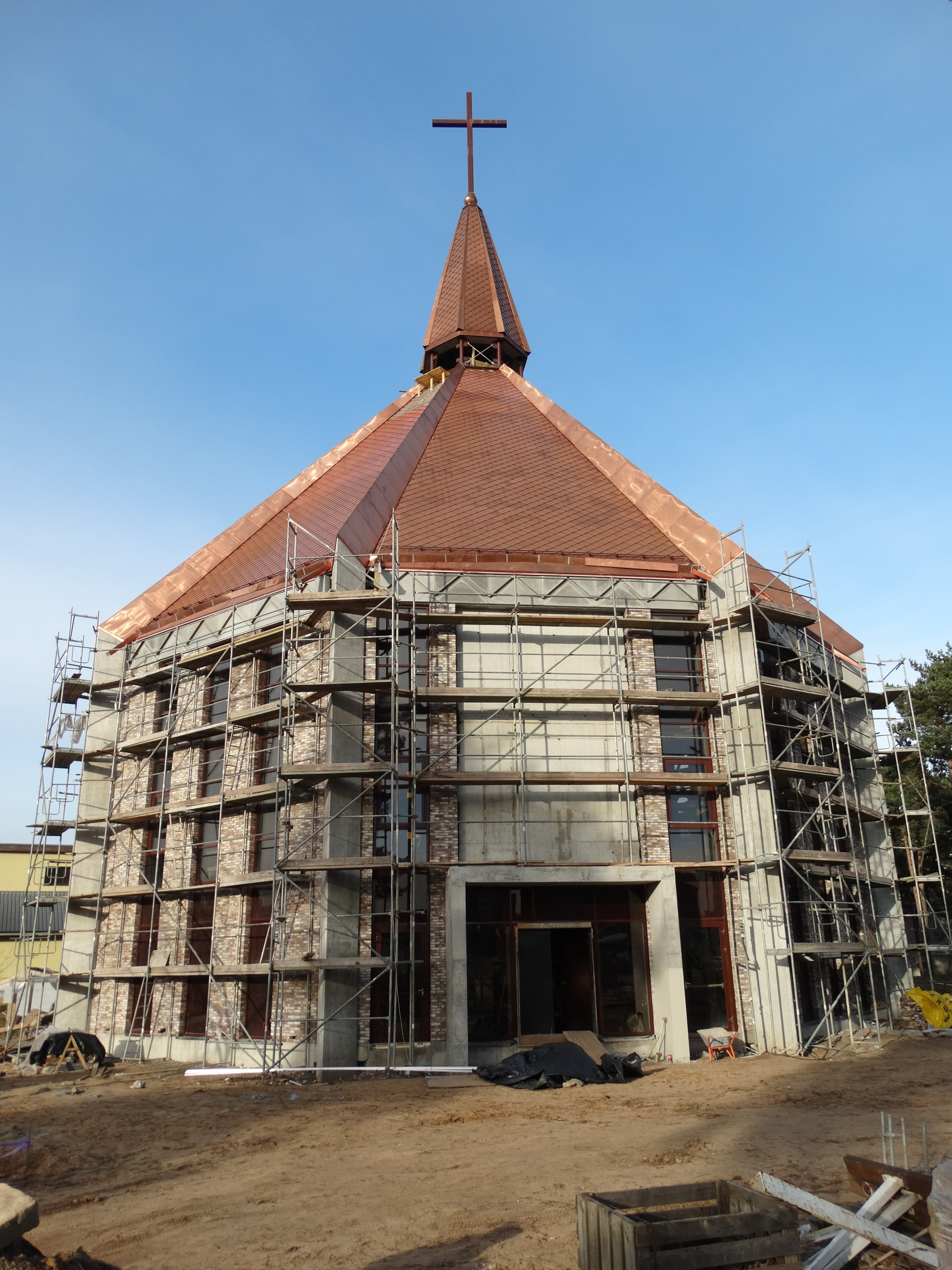 New Rom Catholic Church, Grigiškės, Lithuania